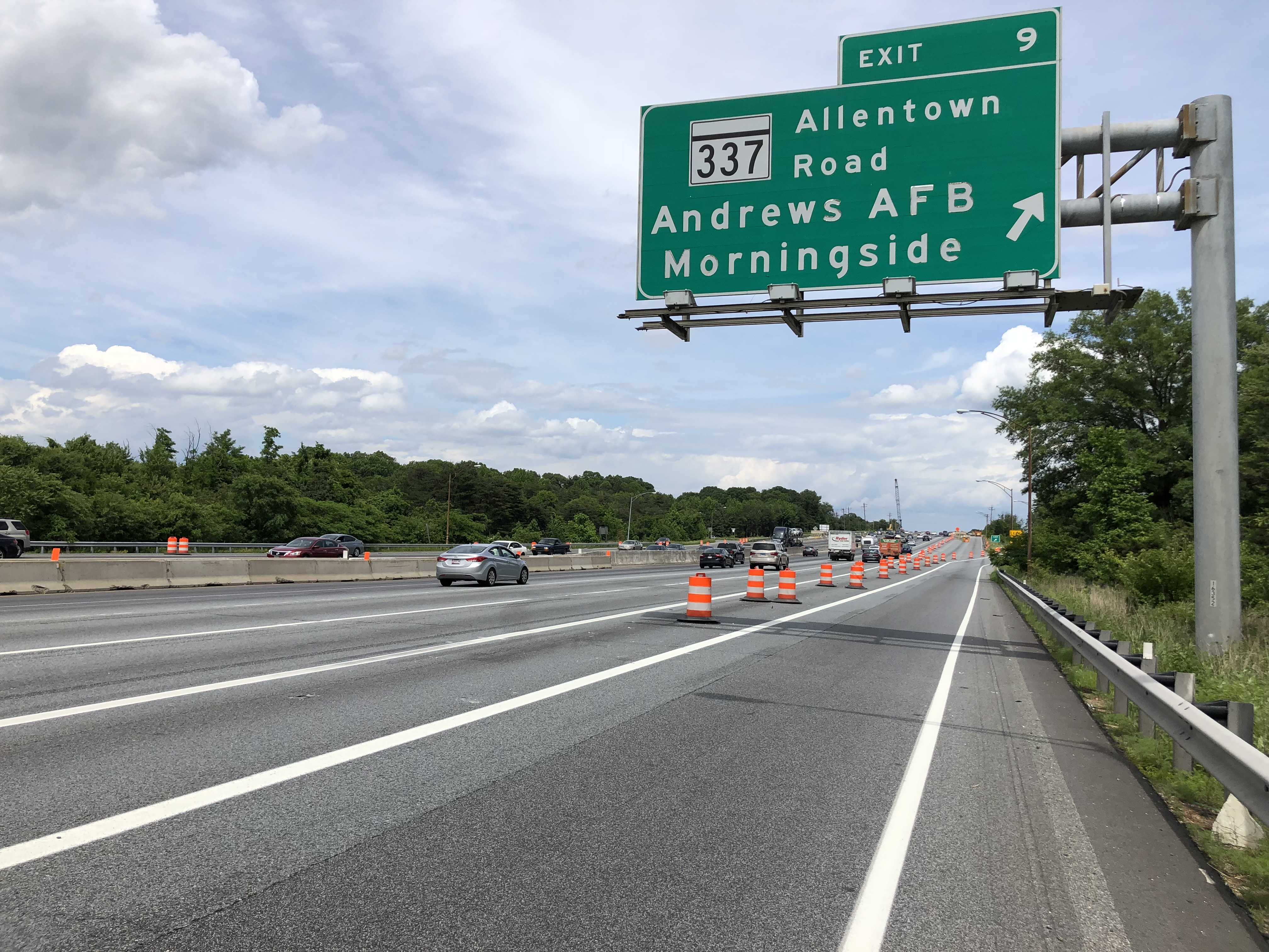 View north along the outer loop of the Capital Beltway (Interstate 95 and Interstate 495) at Exit 9 (Maryland State Route 337/Allentown Road, Andrews Air Force Base, Morningside) in Morningside, Prince George's County, Maryland